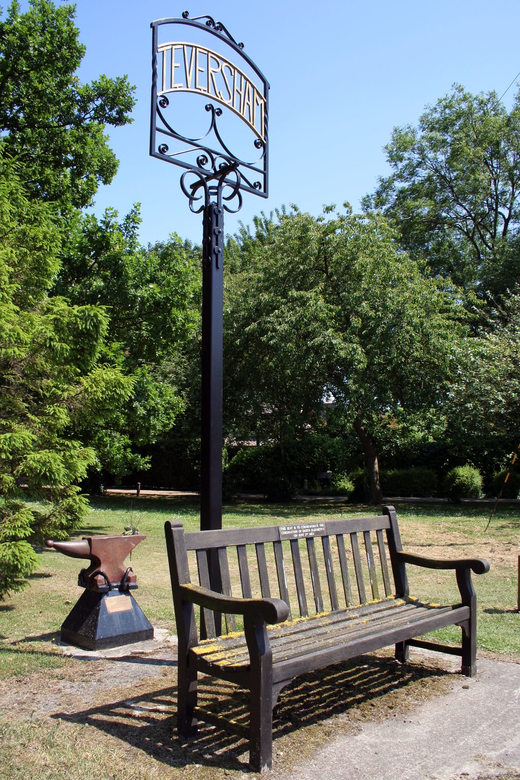 Teversham village sign in July 2013.